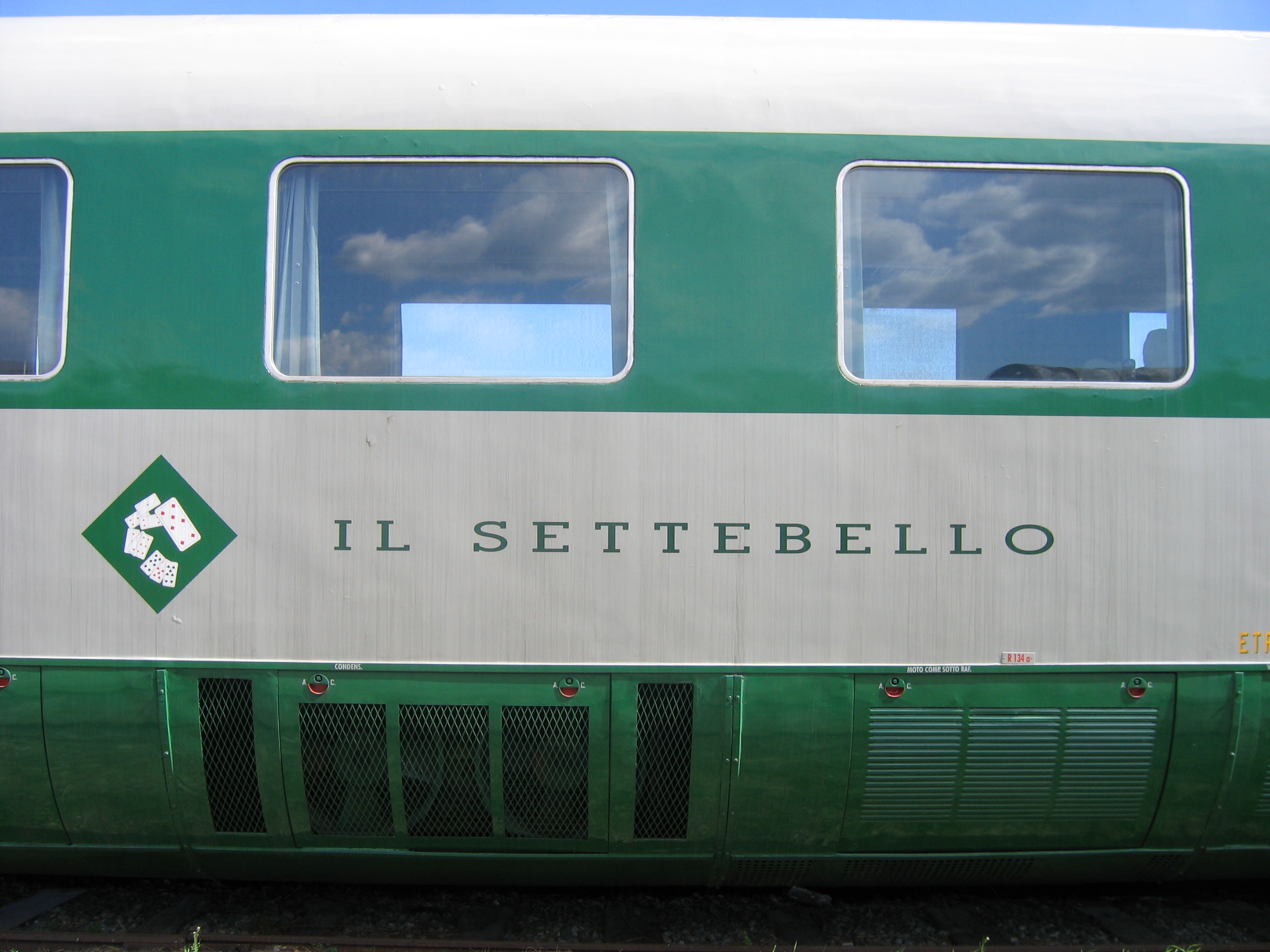 Central part of the "Settebello" "elettrotreno" last surviving power car, showing the wide glass panels and motor equipment. Santhià (TO), Italy